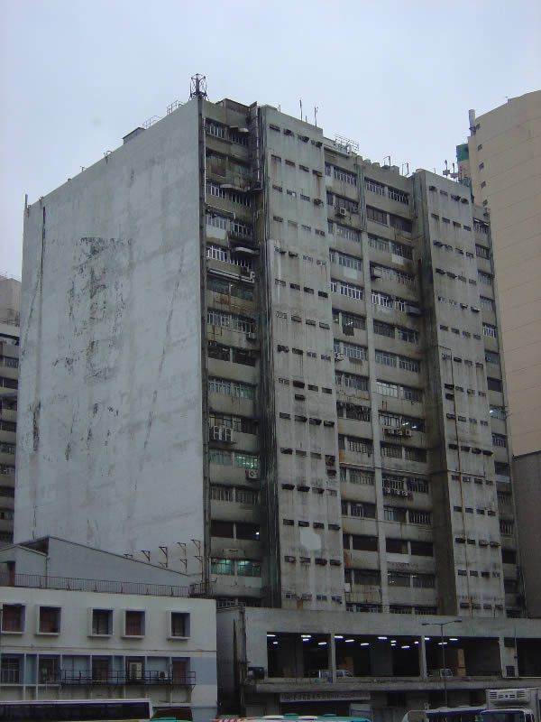 An old-style mutli-layer factory in Hong Kong